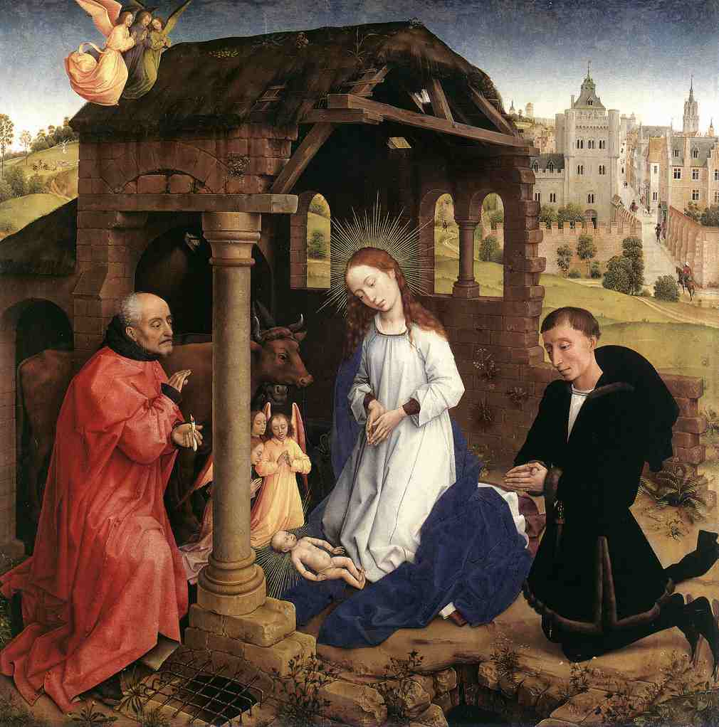 Bladelin Triptych (Central panel)